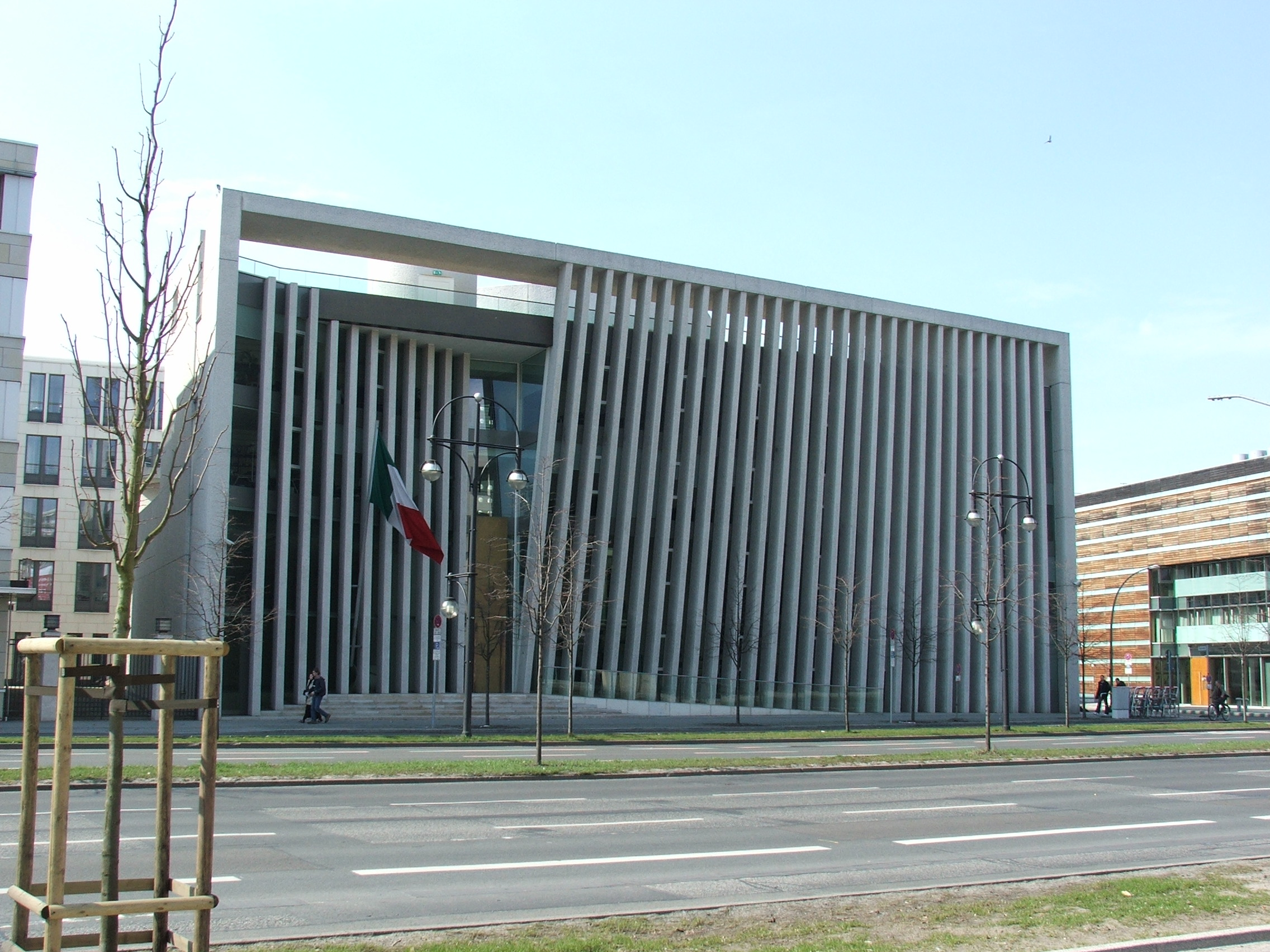 Embassy of México in Berlin.